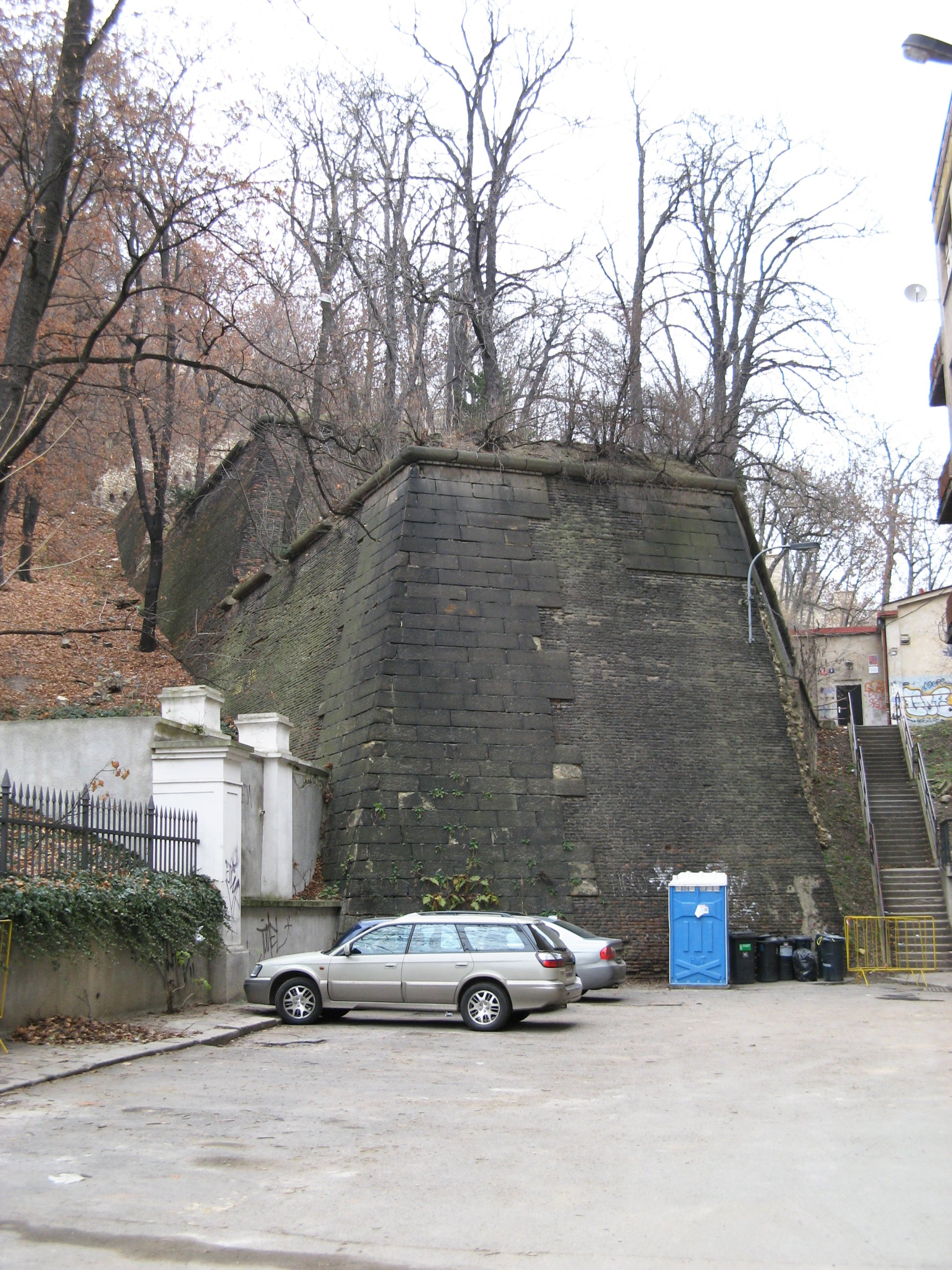 City walls Mariánské (St. Mary's) in Prague, close to Rošických street. In the back Category:Hladová zeď